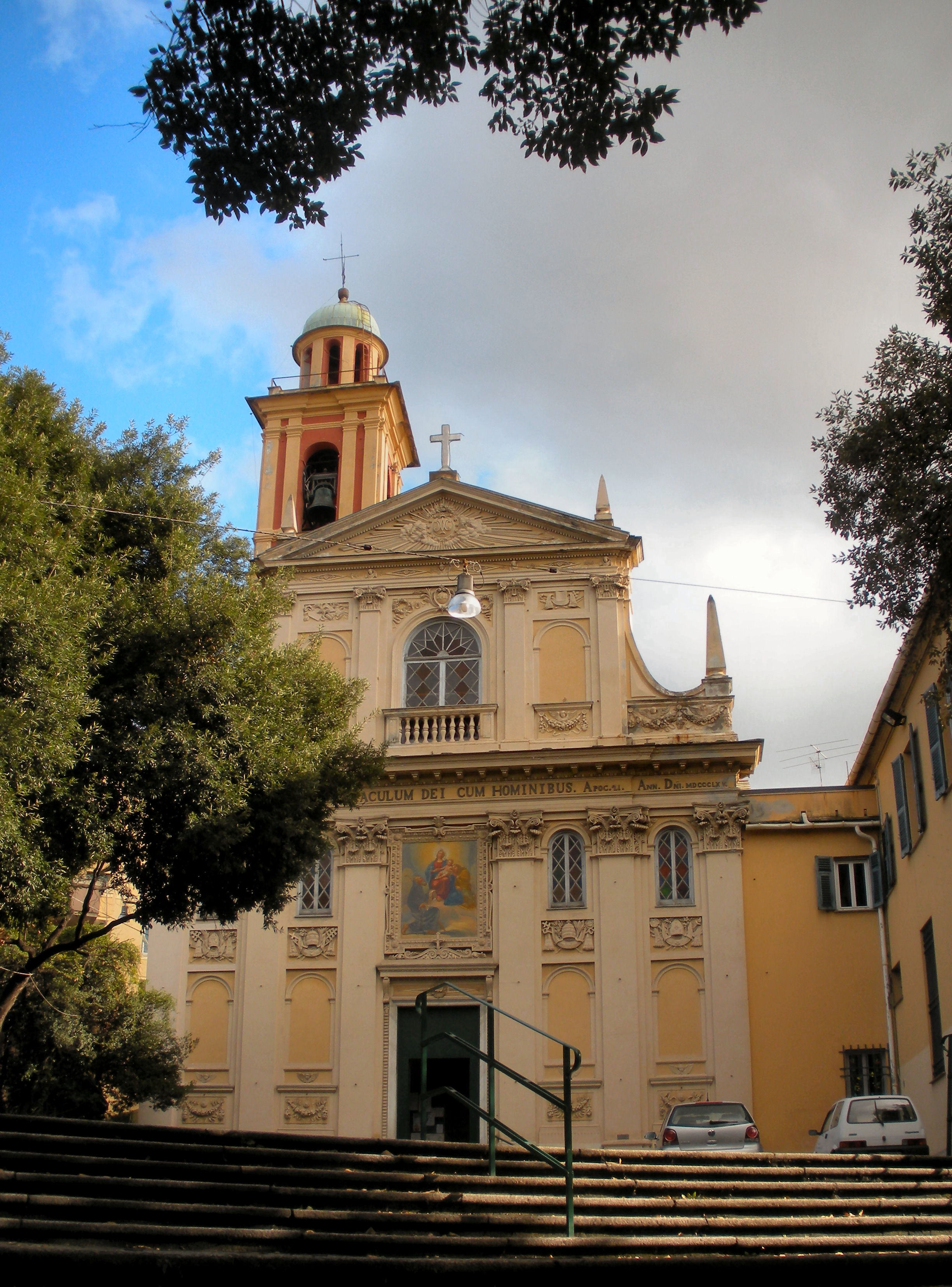 Genoa (Italy), quarter of Marassi, church of St. Margherita